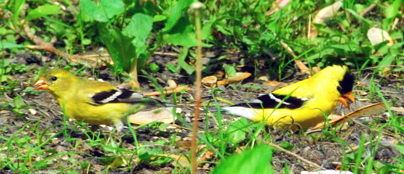 Mr and Mrs American Goldfinch